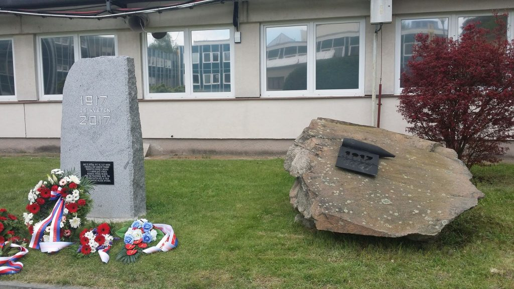 1917 Bolevec explosion memorial in Bolevec (left stone unveiled in 2017, right stone unveiled in 1967)